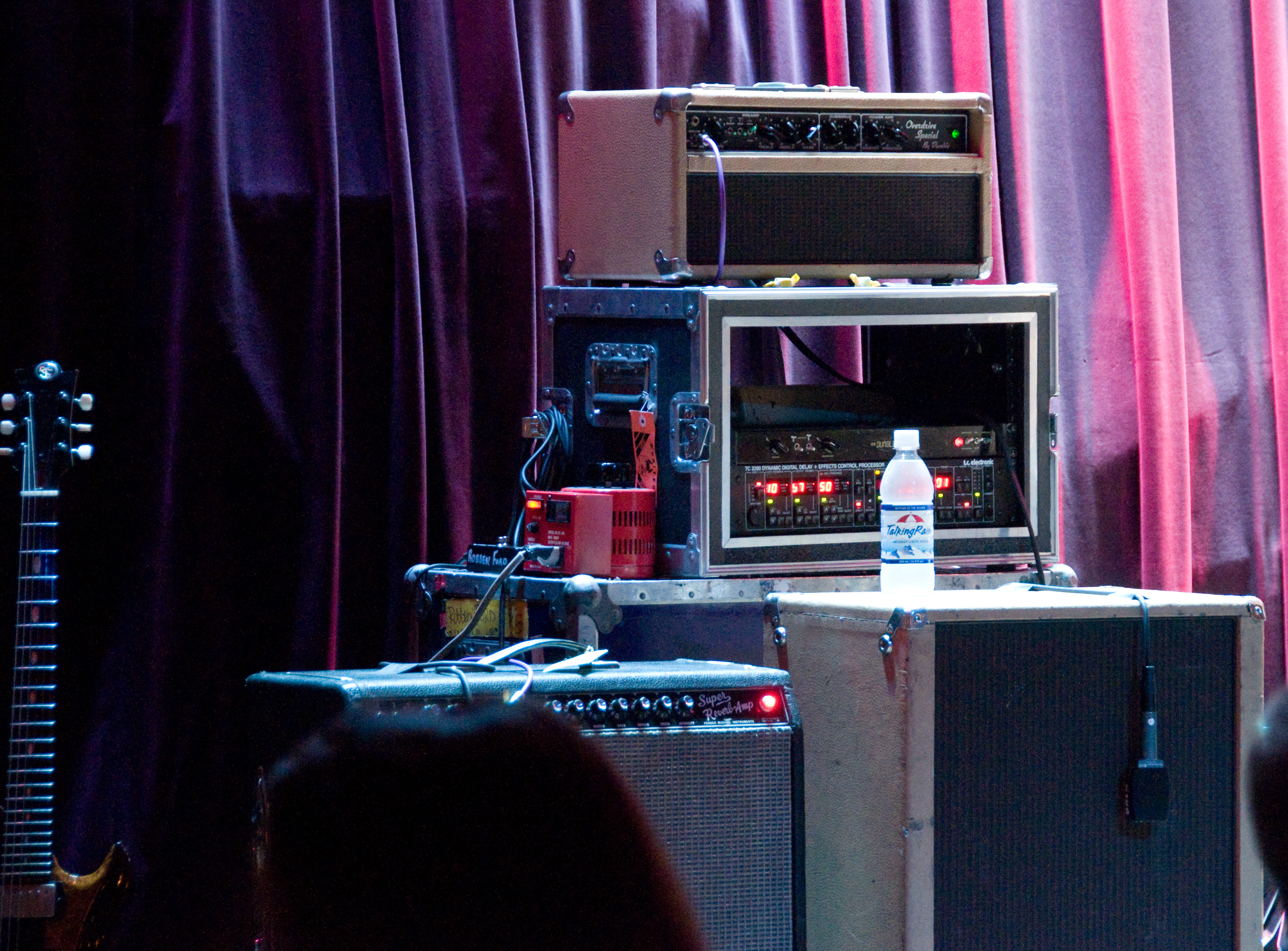 Robben is known for his tone, and for good reason. That amp head on top is a Dumble Overdrive Special, generally regarded as the holy grail of guitar amps. I just saw one come up on eBay a couple weeks ago. The price? $50,000! It does sound absolutely amazing. But is it $50k worth of amazing? You'll have to decide for yourself.